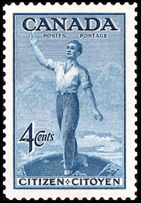 Postage stamp of Canada, commemorating the establishment of a separate Canadian citizenship (prior to 1947, Canadians were British subjects), 4 cents, 1947